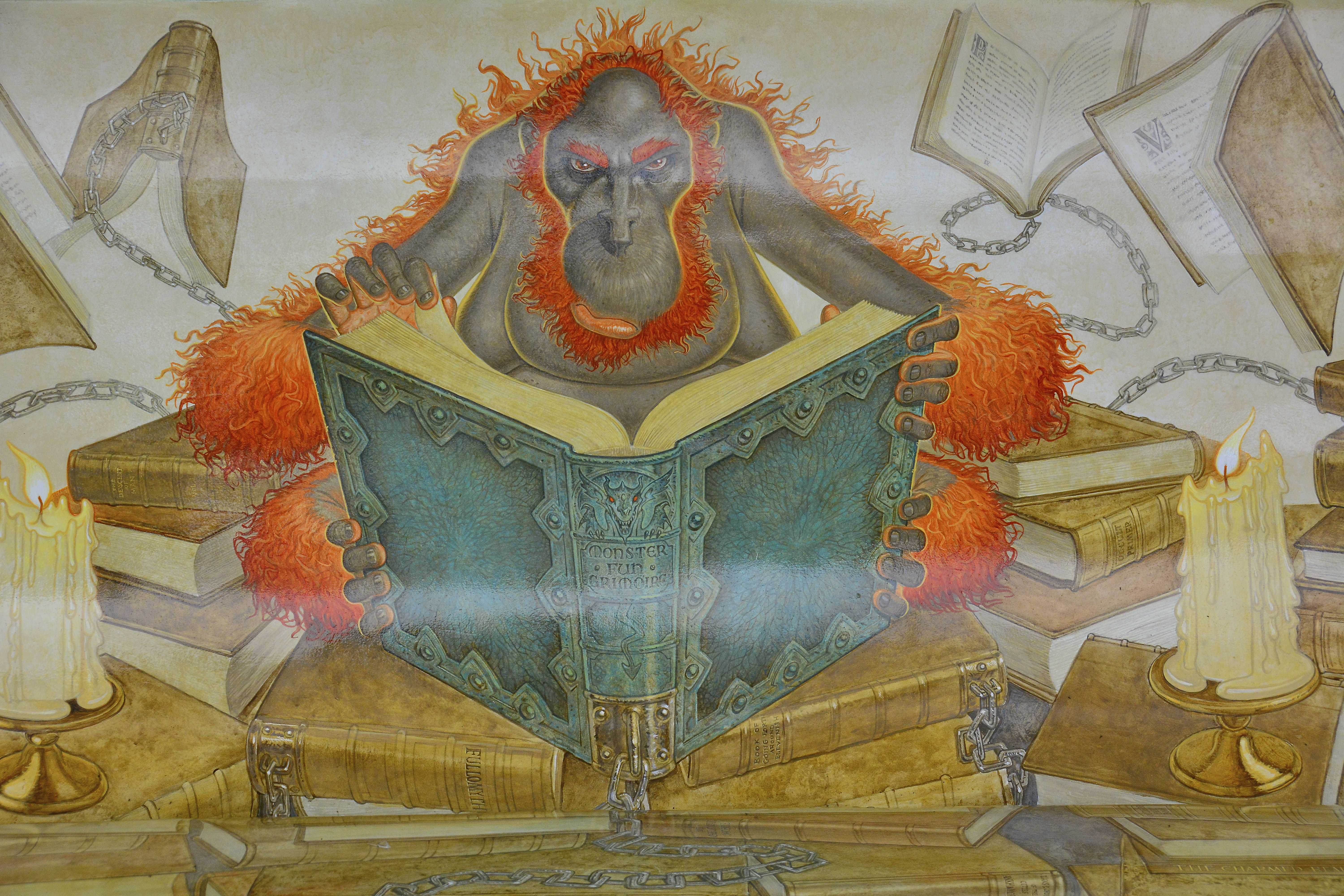 The Librarian from Discworld.